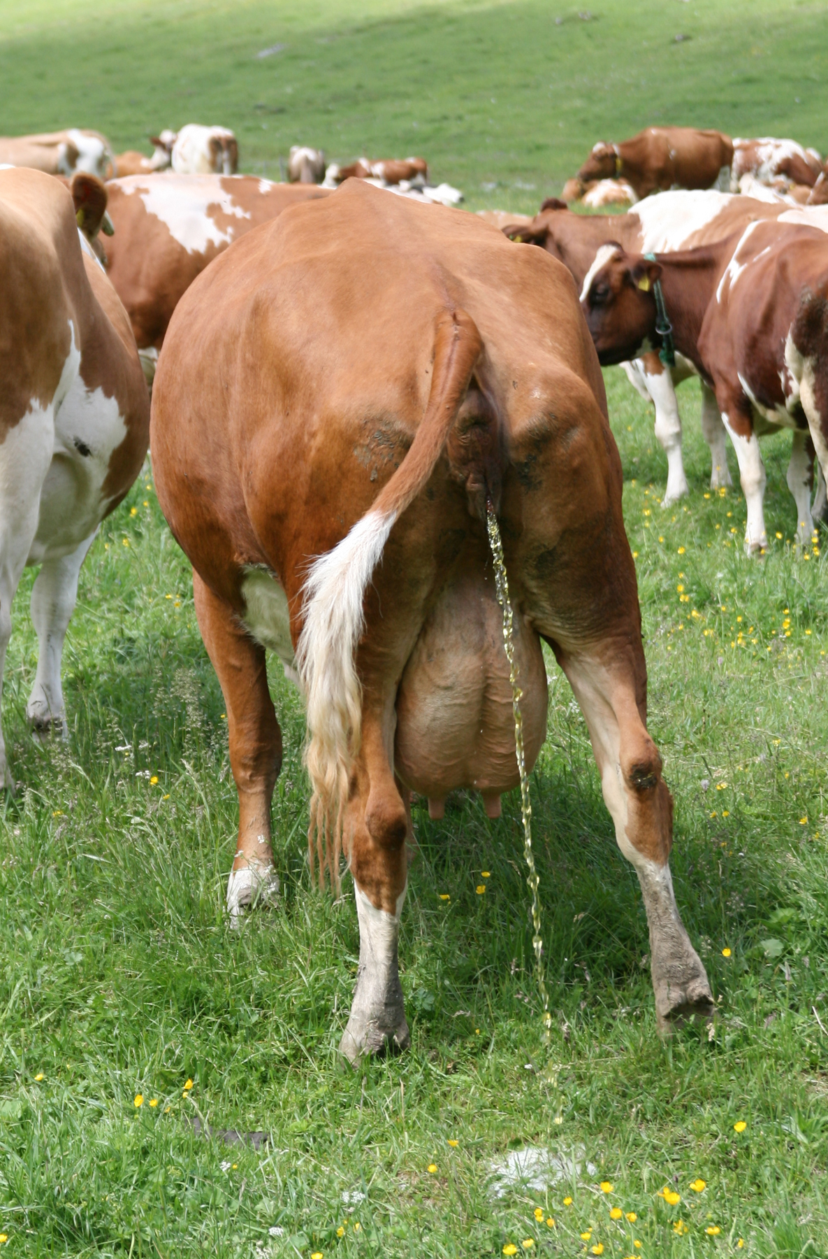 Cattle, colloquially referred to as cows, are domesticated ungulates, a member of the subfamily Bovinae of the family Bovidae. As shown: Simmental is a brown-white cattle breed originating in the Simme valley in Switzerland.